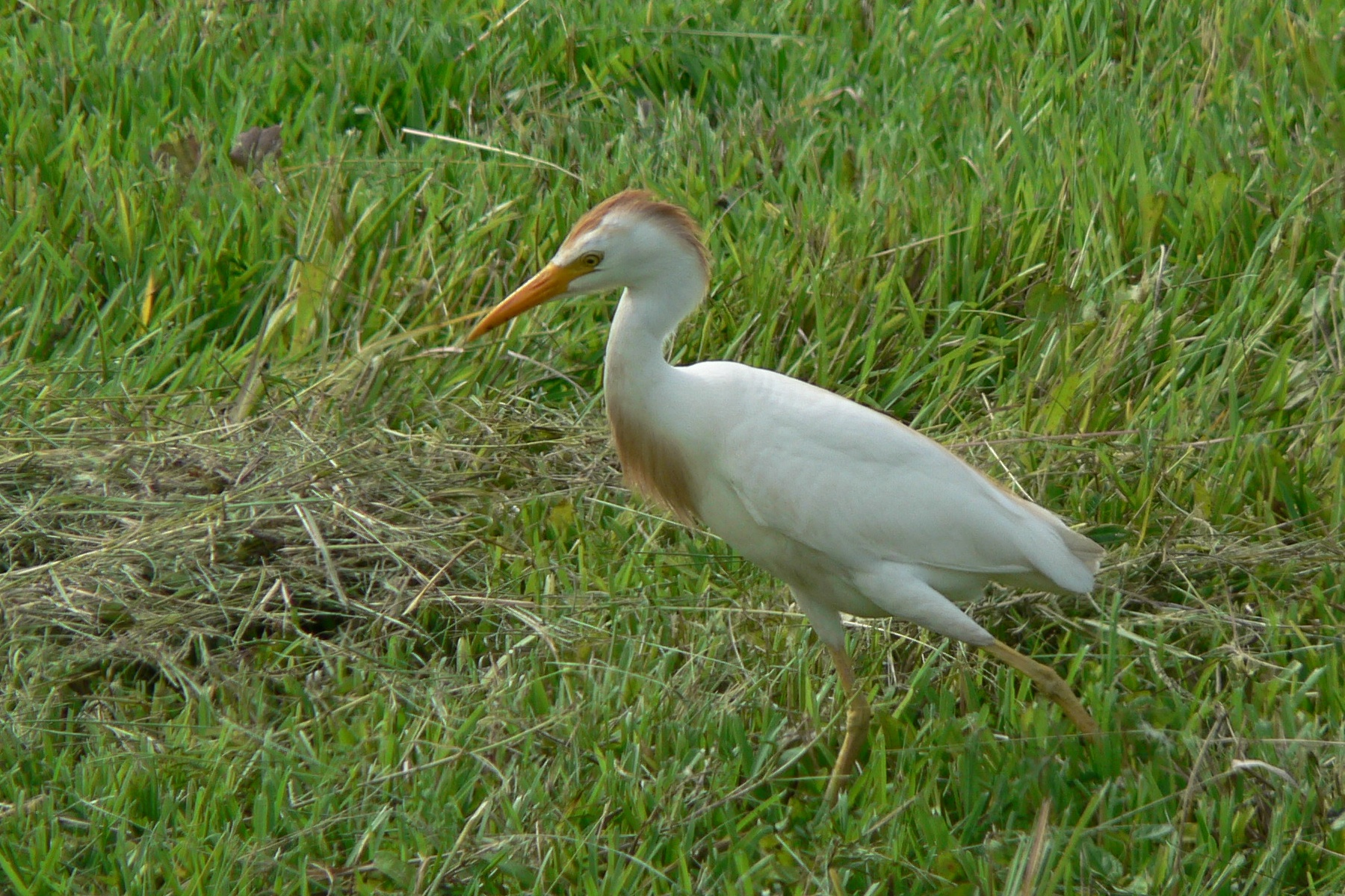 Cattle Egret (Bubulcus ibis) walking in grass. Morey, Texas.